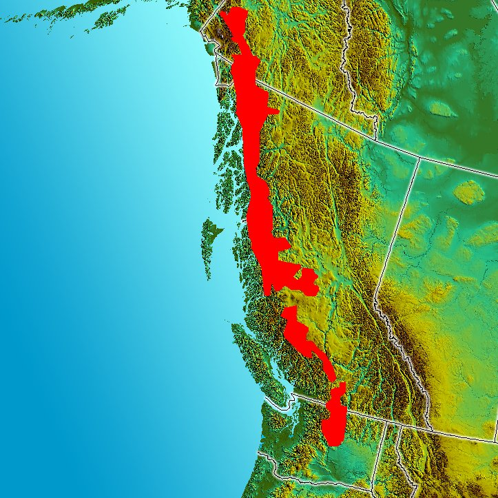 Red indicates the former Coast Range Arc.